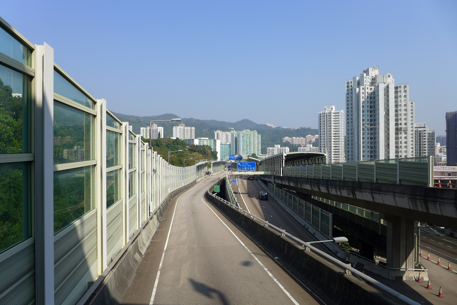 Tai Po Road Tai Wai Section